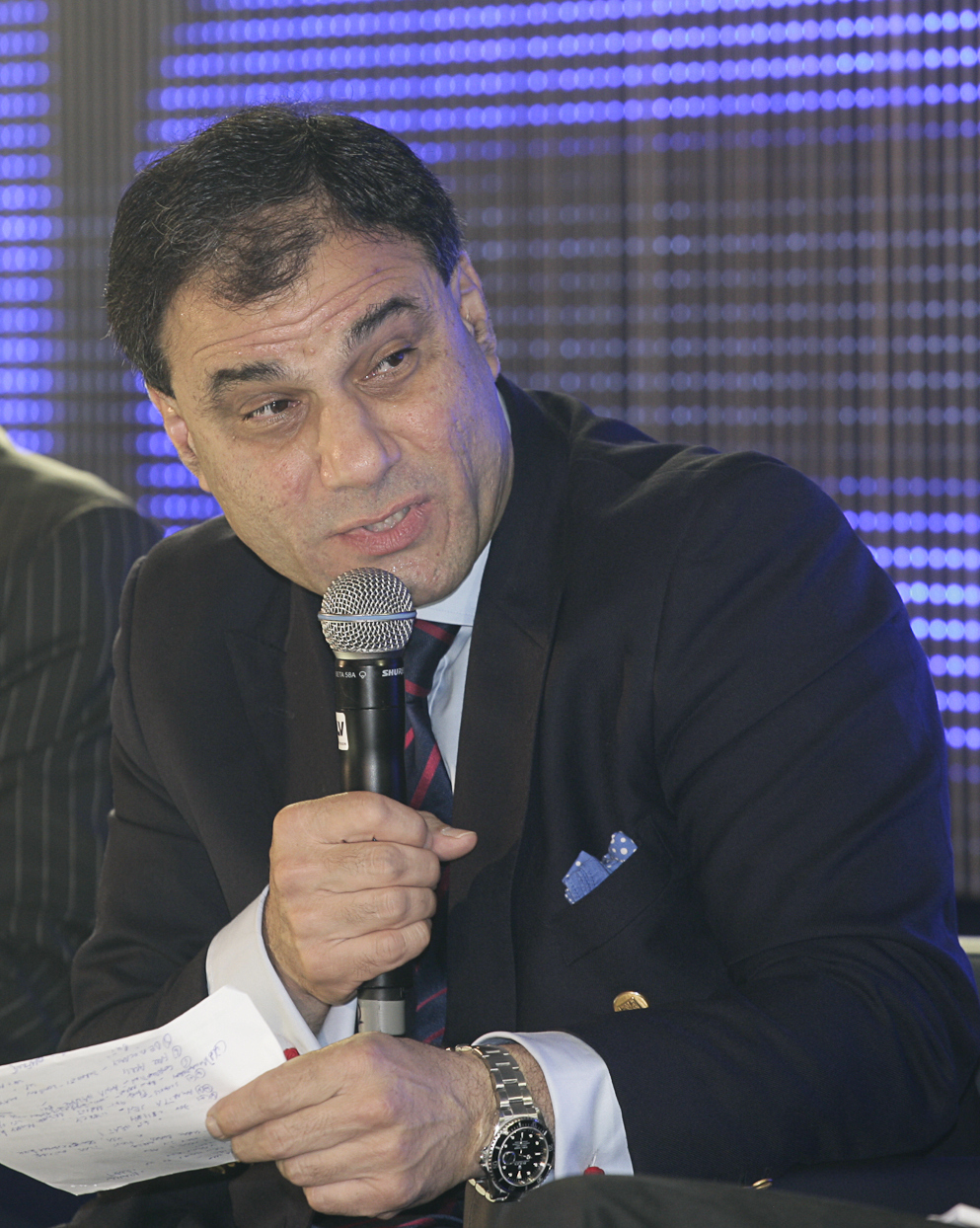 Lord Karan Bilimoria, Chairman, Cobra Beer Partnership - the slowing world economy has a negative effect on India’s industrial output Horasis Global India Business Meeting, Antwerp, 24-25 June